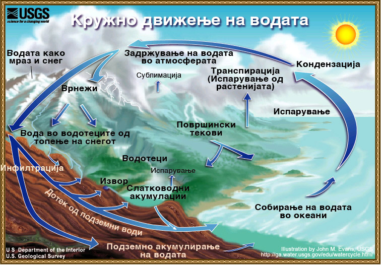 Water-Cycle Diagram (Macedonian)